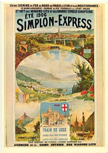 Poster Simplon-Express in the first season. Train started only in Summer season 1906